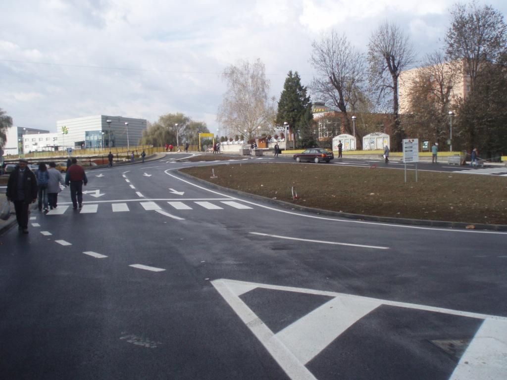 Town Square in Sanski Most